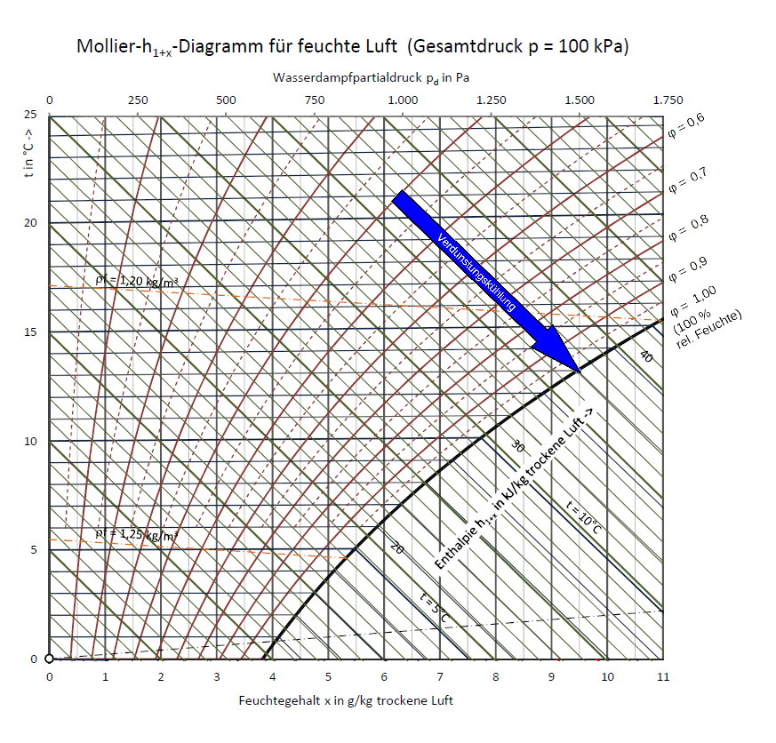 Derivative of